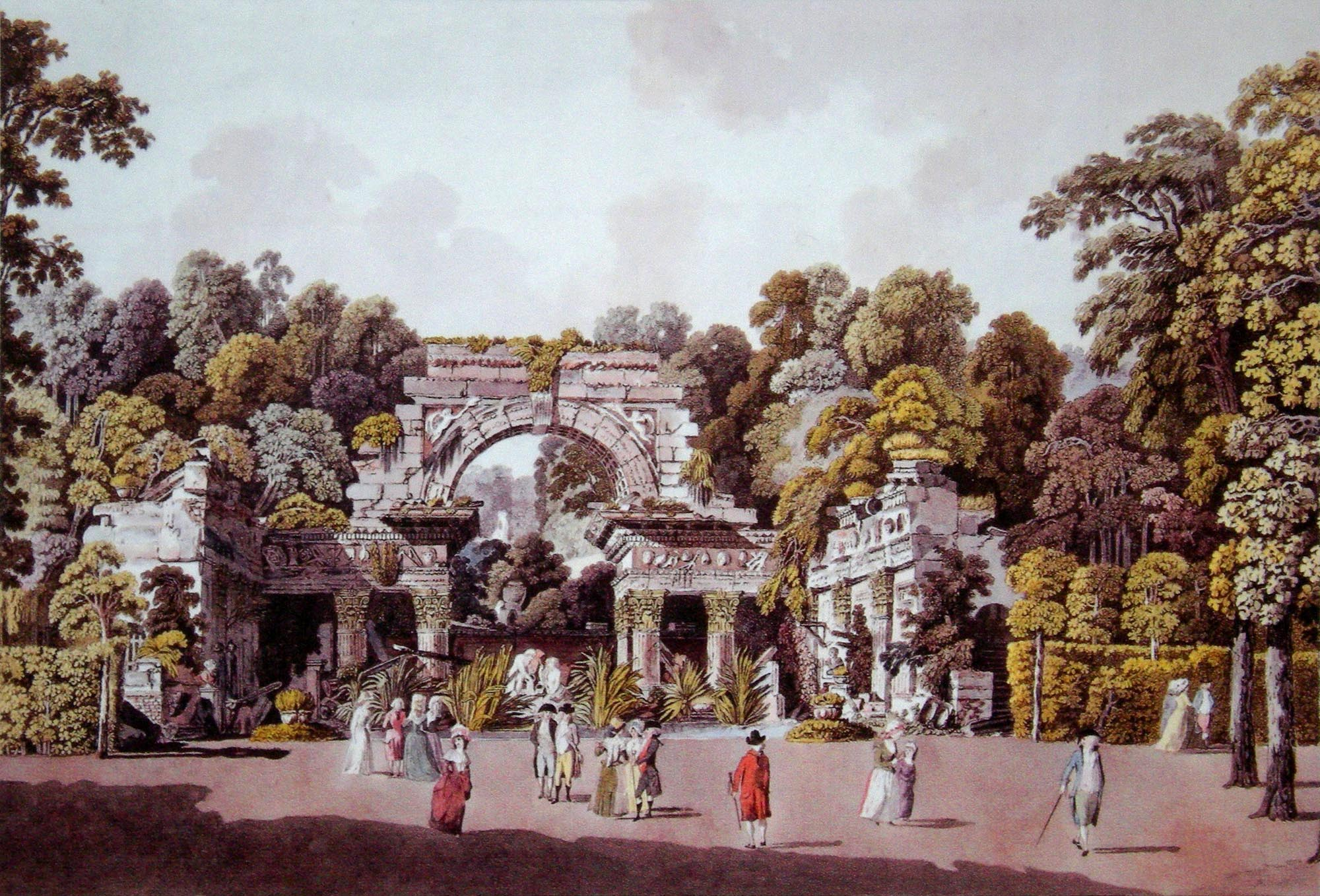 Roman Ruin, which was called Ruin of Carthage before 1800, in the Gardens of Schönbrunn.